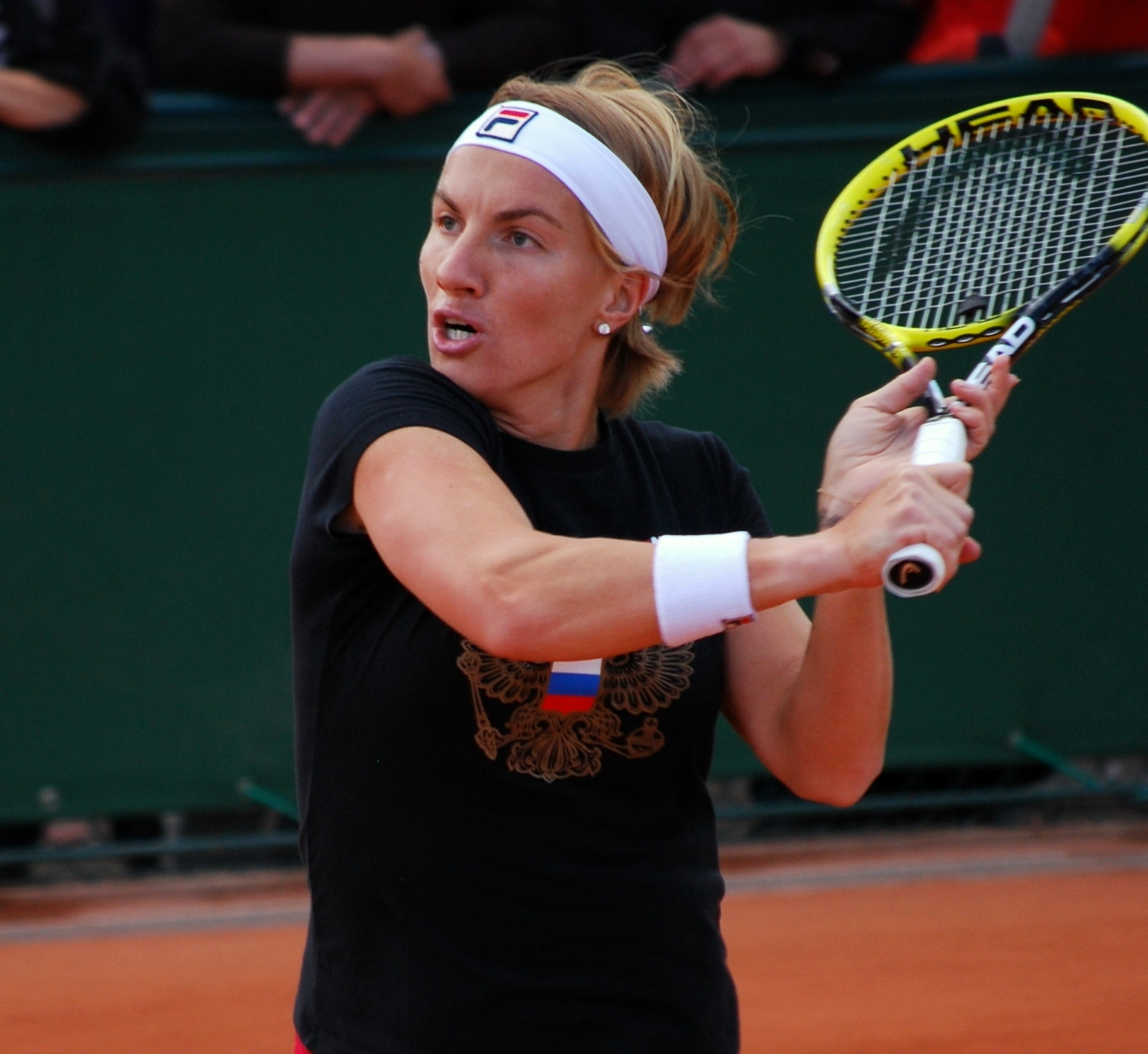 Svetlana Kuznetsova at Roland Garros in 2011